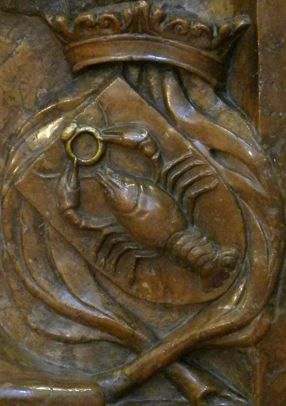 Coat of arms of unknown member of Szirmay family. Epitaph without inscription, presbytery of the Church of St. John of Matha, Bratislava.